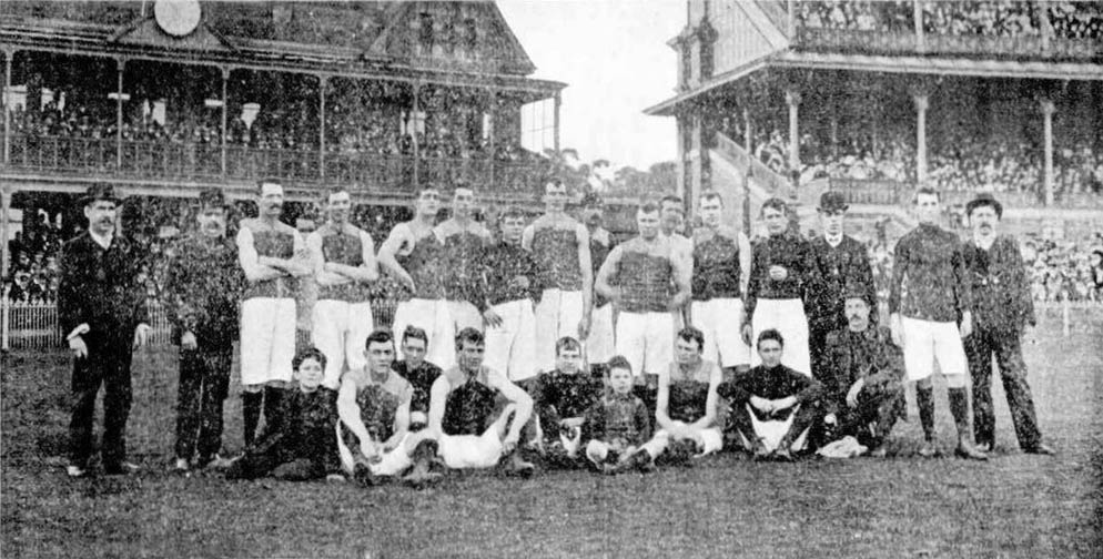 Carlton FC, Premiers. Players - (standing) L - R: Jim Flynn, Martin Gotz, Charlie Hammond, Harvey Kelly, Vin Gardiner, Jim Marchbank, Fred Jinks, Norman Clark, Arthur Ford, Ted Kennedy, Rod McGregor. (sitting): Billy Payne, Les Beck, Alex Lang, George Topping, George "Mallee" Johnson, George Bruce.